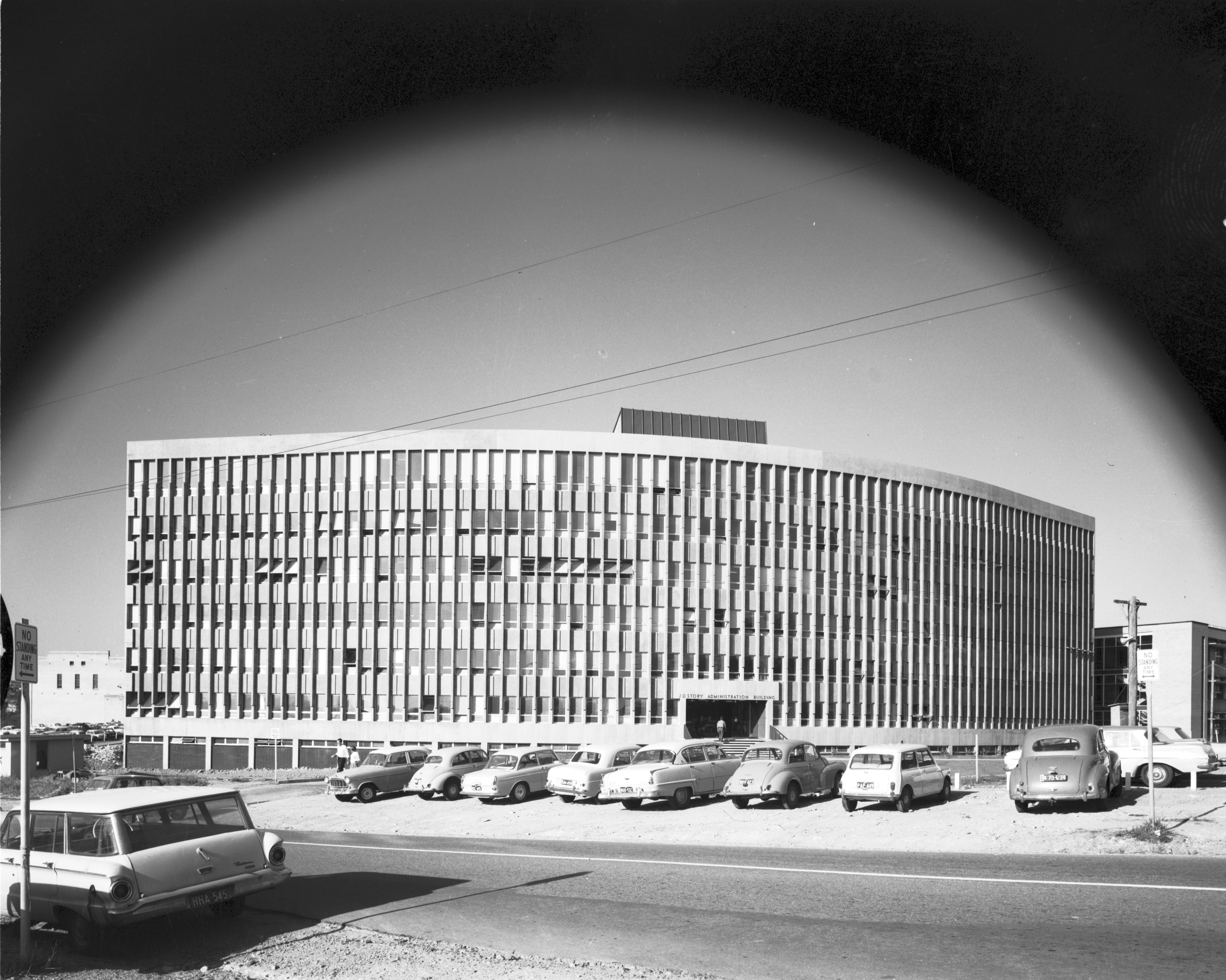 J D Story Administration Building, University of Queensland, St Lucia, October 1966. It was designed by architect James Birrell and named after public servant John Douglas Story